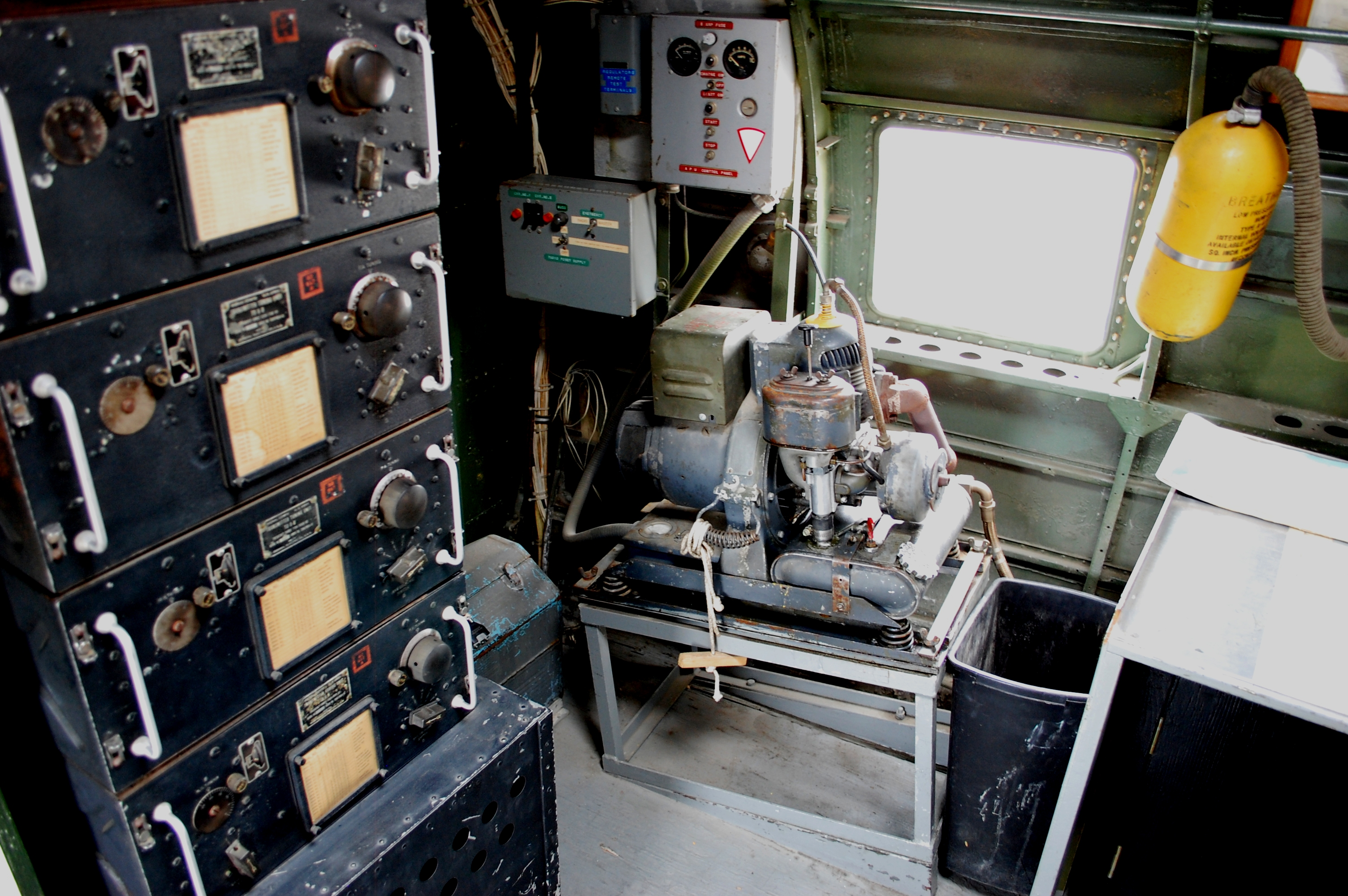 The Auxillary Power Unit of the Curtiss C-46 'China Doll' of the Commemorative Air Force, Southern California wing.